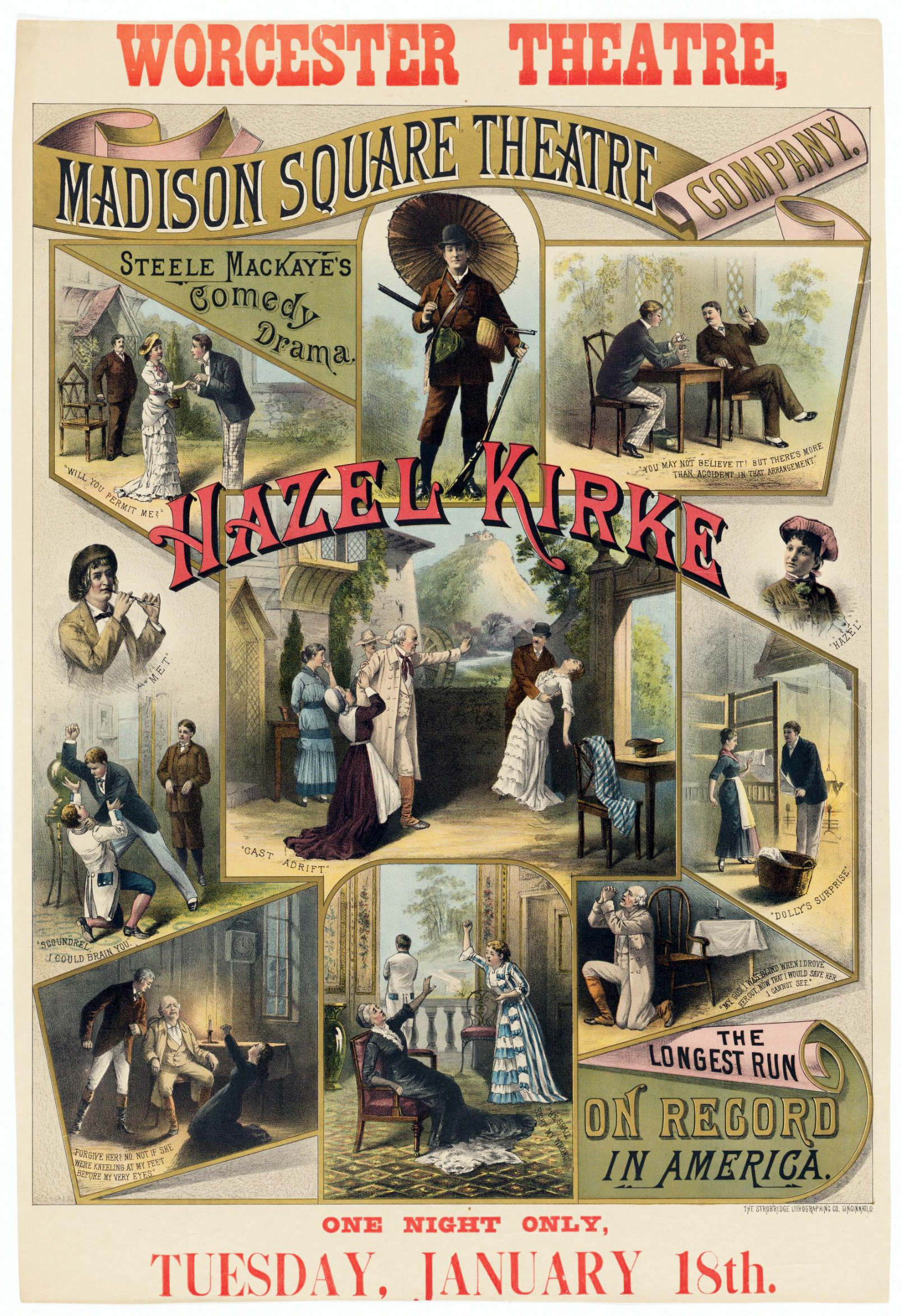 Poster for the performance of Hazel Kirke by Steele MacKaye presented by the Madison Square Theatre Company in Worcester Theatre on January 18, [no year, but likely 1881 during its record-breaking first run. If not, January 18 fell on a Tuesday on 1887 and 1898 as well]. TCS 46, Harvard Theatre Collection, Houghton Library, Harvard University